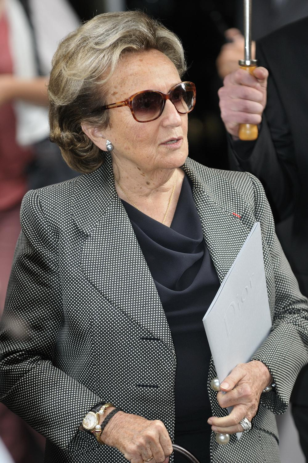 Bernadette Chirac — People aux défilés de Haute-Couture, Paris, le 6 Juillet 2009. Collection Automne-Hiver 2009/2010.